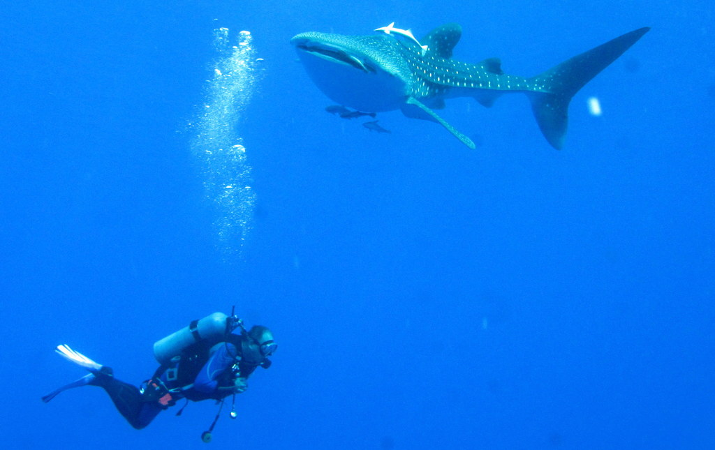 The Whaleshark Collection at Daedalus Reef, Red Sea, Egypt: diver and a shark approaching